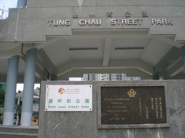 通州街公園